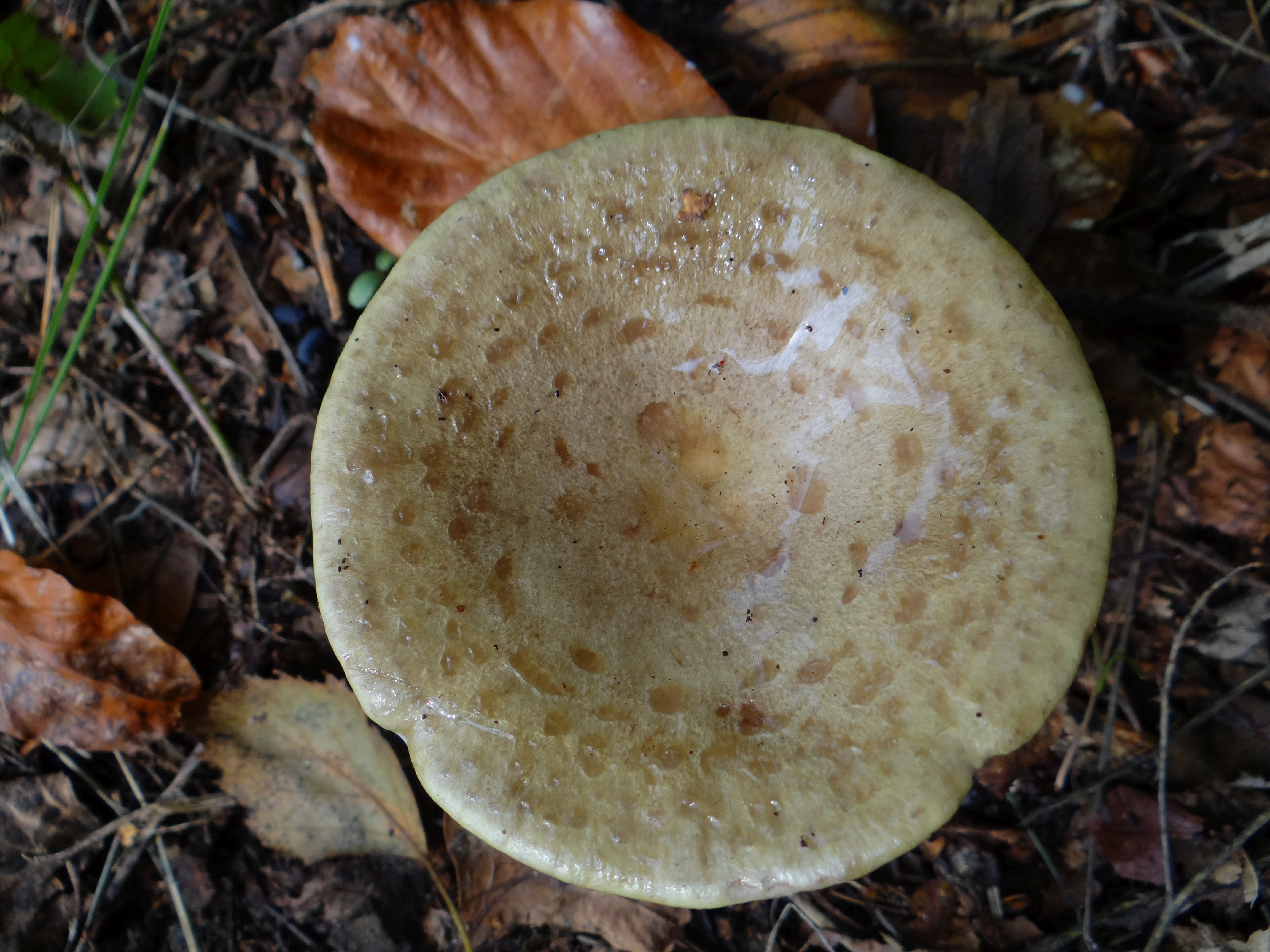 Lactarius blennius (location: Poland)